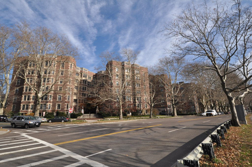 The Memorial Drive Apartments in Cambridge, Massachusetts, as seen from the Cambridge side of the Charles River (southwest of the apartments.